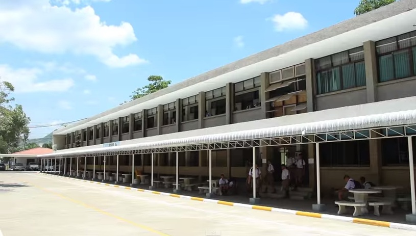 visuttharangsi school in kanchanaburi